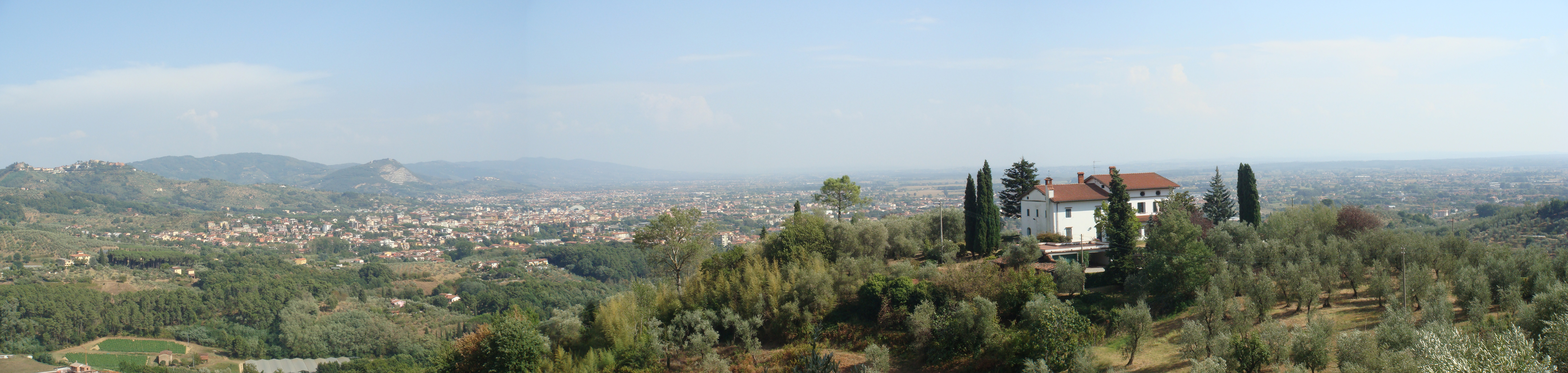 Panorama of eastern Valdinievole from Colle di Buggiano